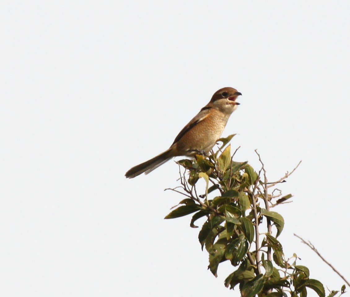 Southern Japan, November 2010